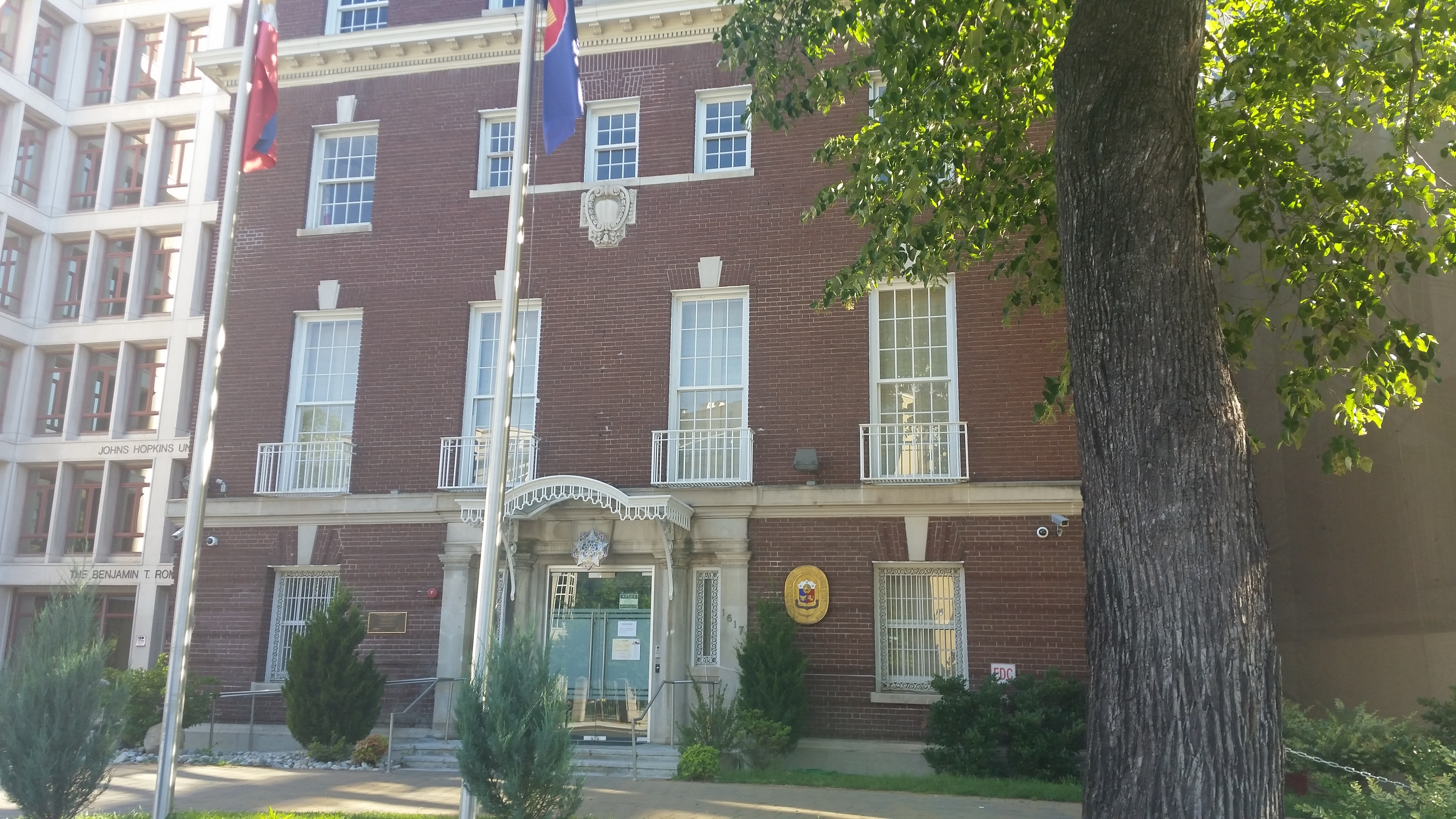 Current, 2018, Consular Services building of the Republic of the Philippines. Former embassy of the Republic of the Philippines. Former capitol of the Commonwealth of the Phillipines in exile.